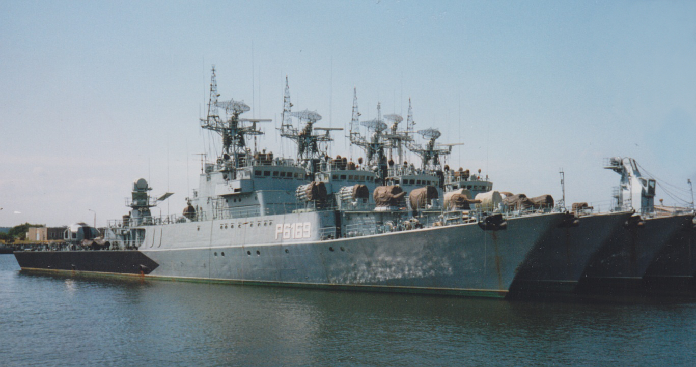 Parchim Class Ships 1991 with German Navy Codes in Peenemünde